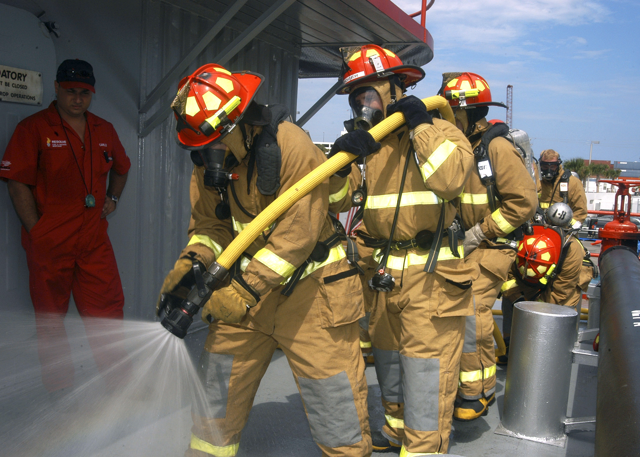 Ft. Lauderdale, Fla. (Apr. 27, 2004) - Members assigned to USS Enterprise (CVN 65) Damage Control Team test their fire-fighting agent prior to entering the simulator round of the Damage Control Olympics during Fleet Week 2004. The Fleet Week celebration is an annual tradition thanking our nation's sea-going personnel for their dedicated service to our country. U.S. Navy photo by Photographer's Mate 2nd Class Lance H. Mayhew Jr. (RELEASED)